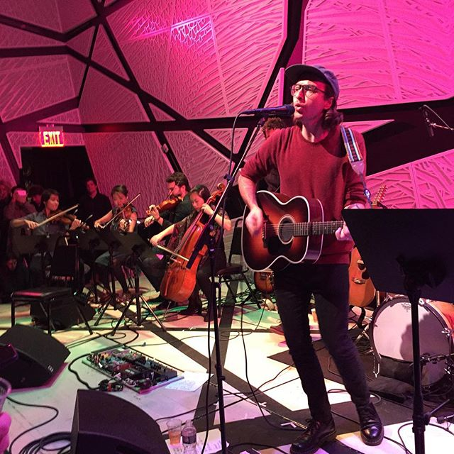 Another one of my live photos. This one is of Martin Courtney from the Many Moons release performance at National Sawdust in Brooklyn on November 20, 2015.